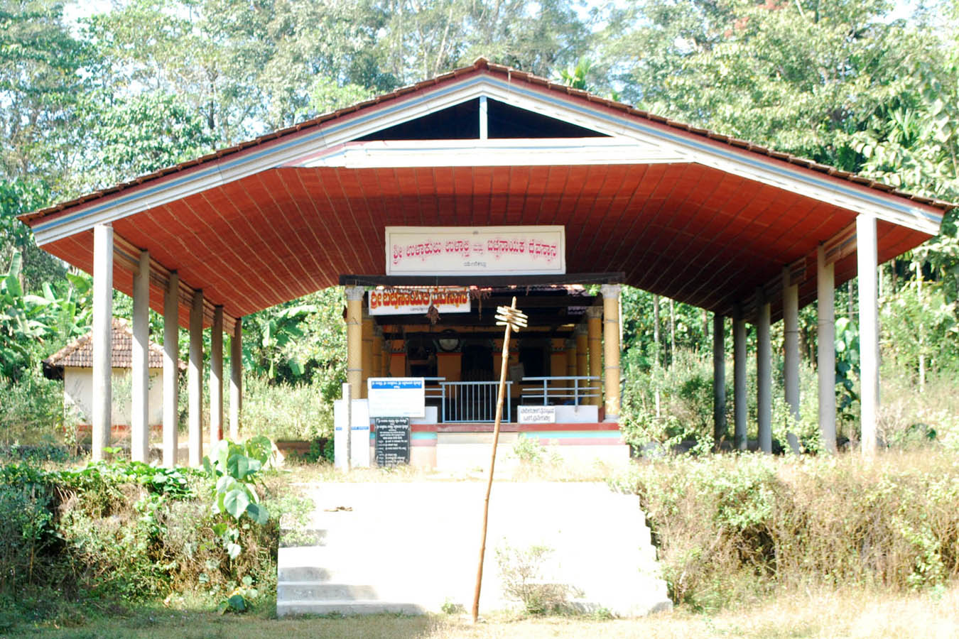 shree ullakulu ullalti and bacchanaika daivastanaಕನ್ನಡ: Shree ullakulu ullalti and bacchanaika daivastana